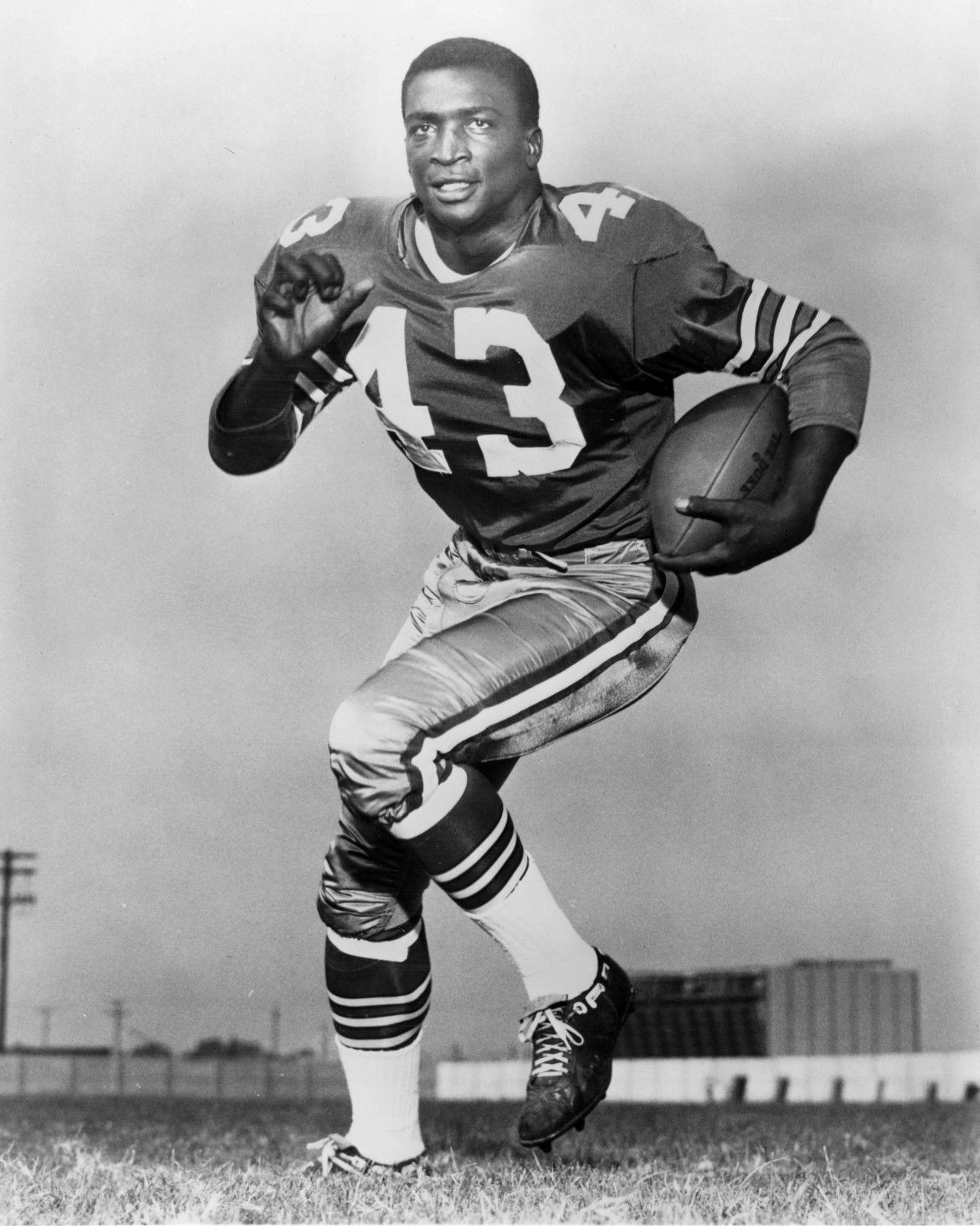 American football fullback Don Perkins, playing for the Dallas Cowboys.